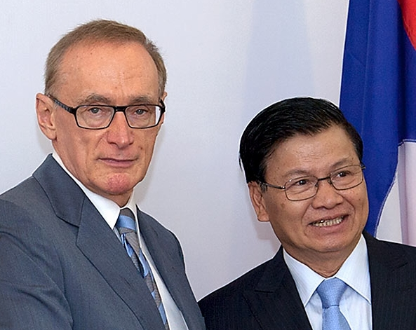 Former Foreign Minister Bob Carr meets Dr Thongloun Sisoulith, Deputy Prime Minister and Minister of Foreign Affairs Photo: Bart Verweij, AusAID To request a high resolution copy